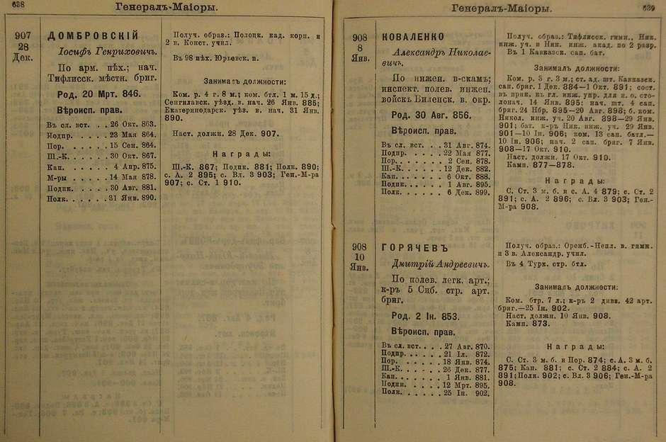 List of generals of the Russian Imperial Army 1911, page 638-639.